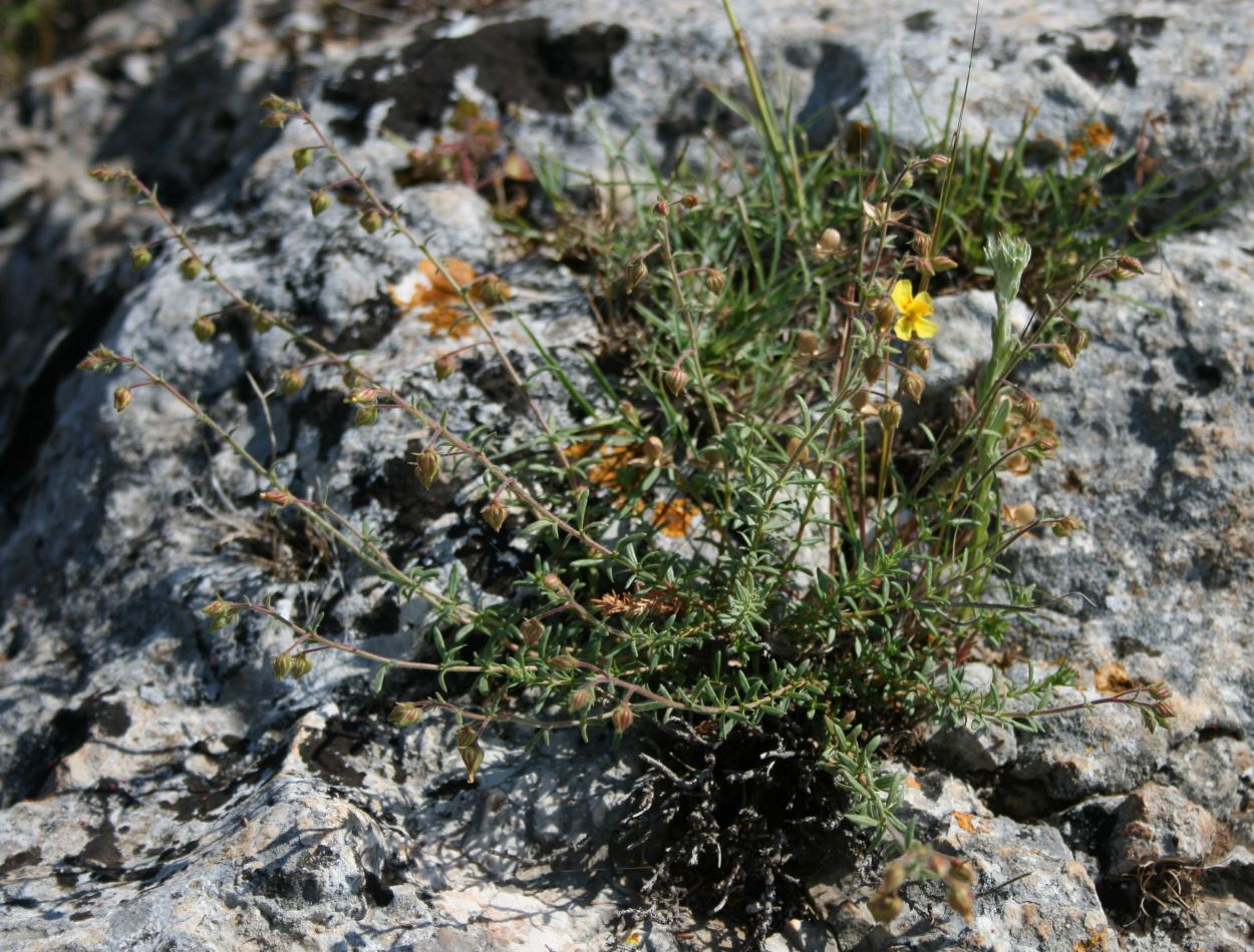 Fumana thymifolia, Zistrosengewächse (Cistaceae) - Italien/Italia/Italy: Apulien/Puglia, Prov. Foggia, südöstlich unter Rignano Garganico